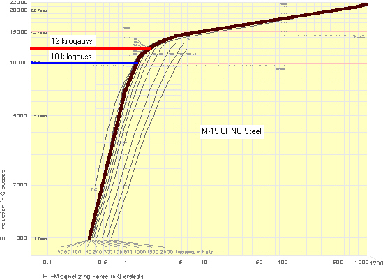 B-H curve for M-19 cold rolled steel. Created with Screen Shot Deluxe, Sep 29, 2006 by Will Matney